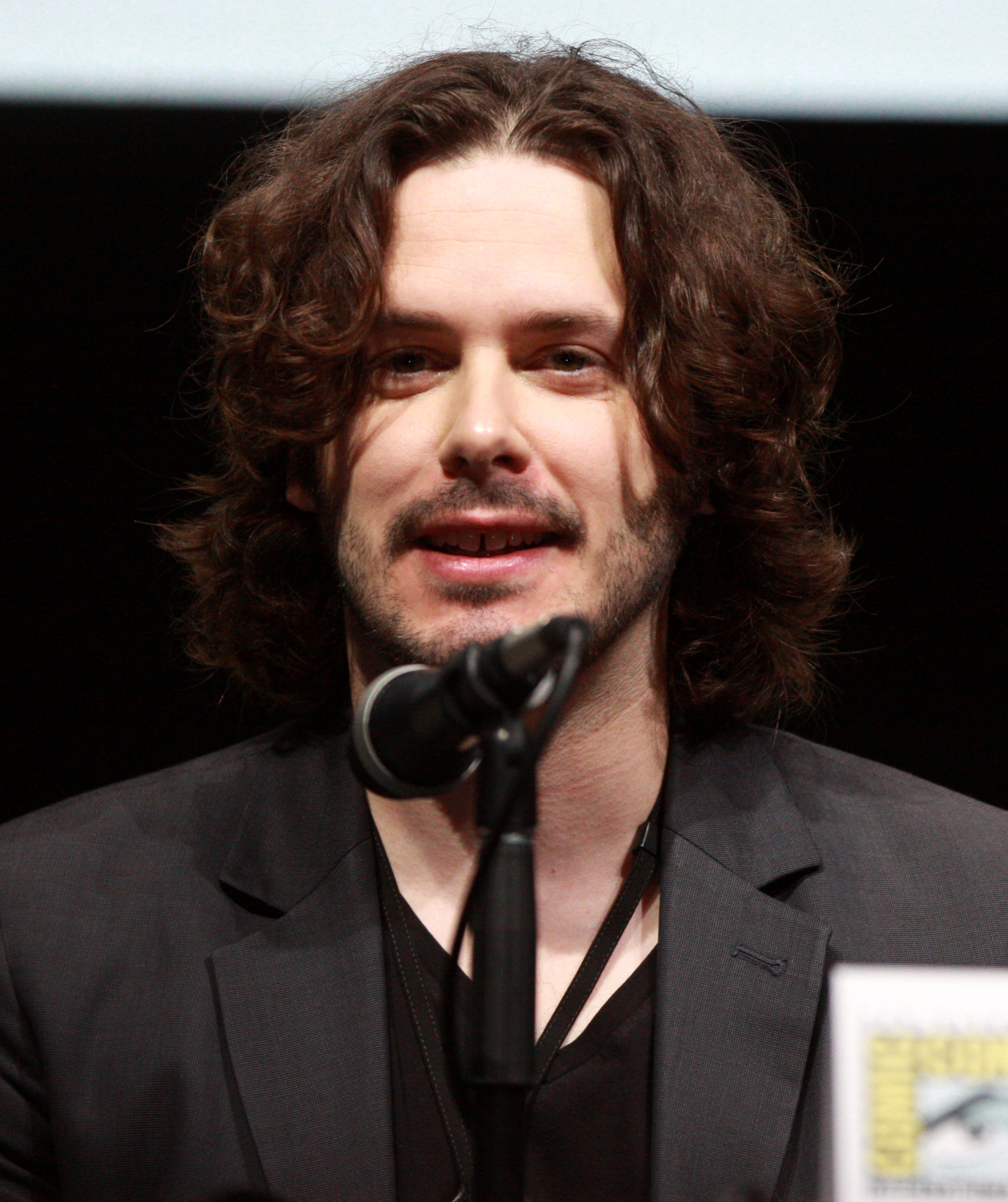 Edgar Wright at the 2013 San Diego Comic Con International in San Diego, California.